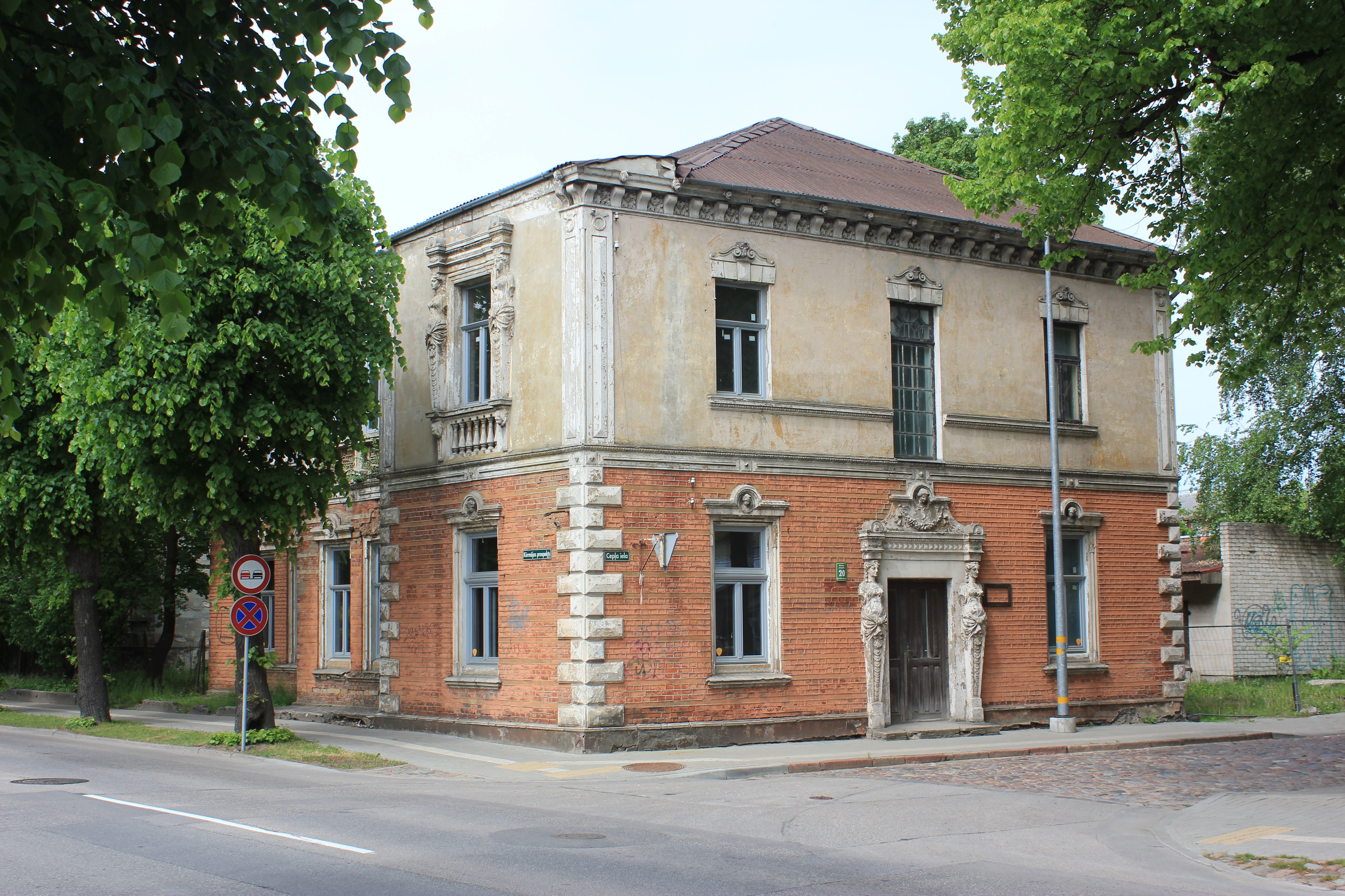 Liepaja - the villa at 20 Kūrmājas prospekts